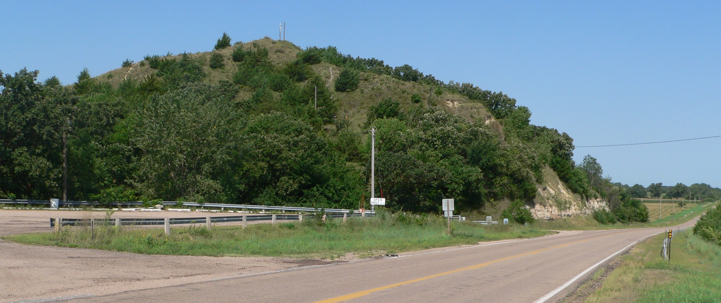 Happy Jack Peak, located near Scotia, Nebraska; seen from the south along Nebraska Highway 11.